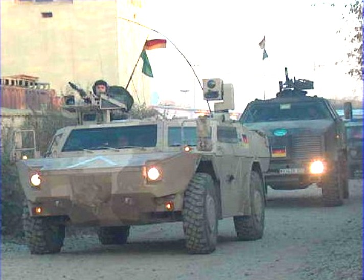 German ISAF patrol: Fennek (front) and Dingo (back).